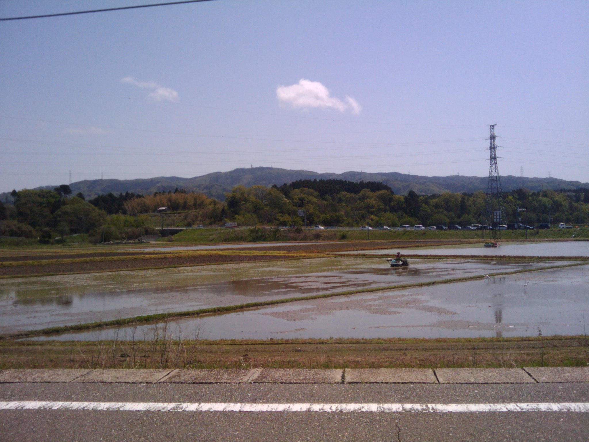 Mount Hodatsu (Hodatsushimizu, Ishikawa, Japan)